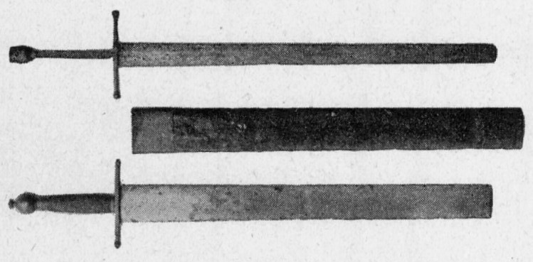 Broadswords of Miskolc from 1395 and 1519